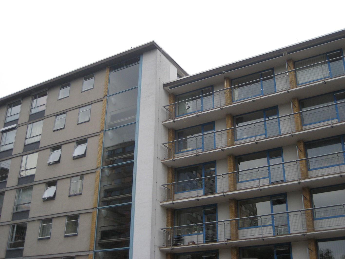 Building of a hospital in Offenbach. Architect:Adolf Bayer